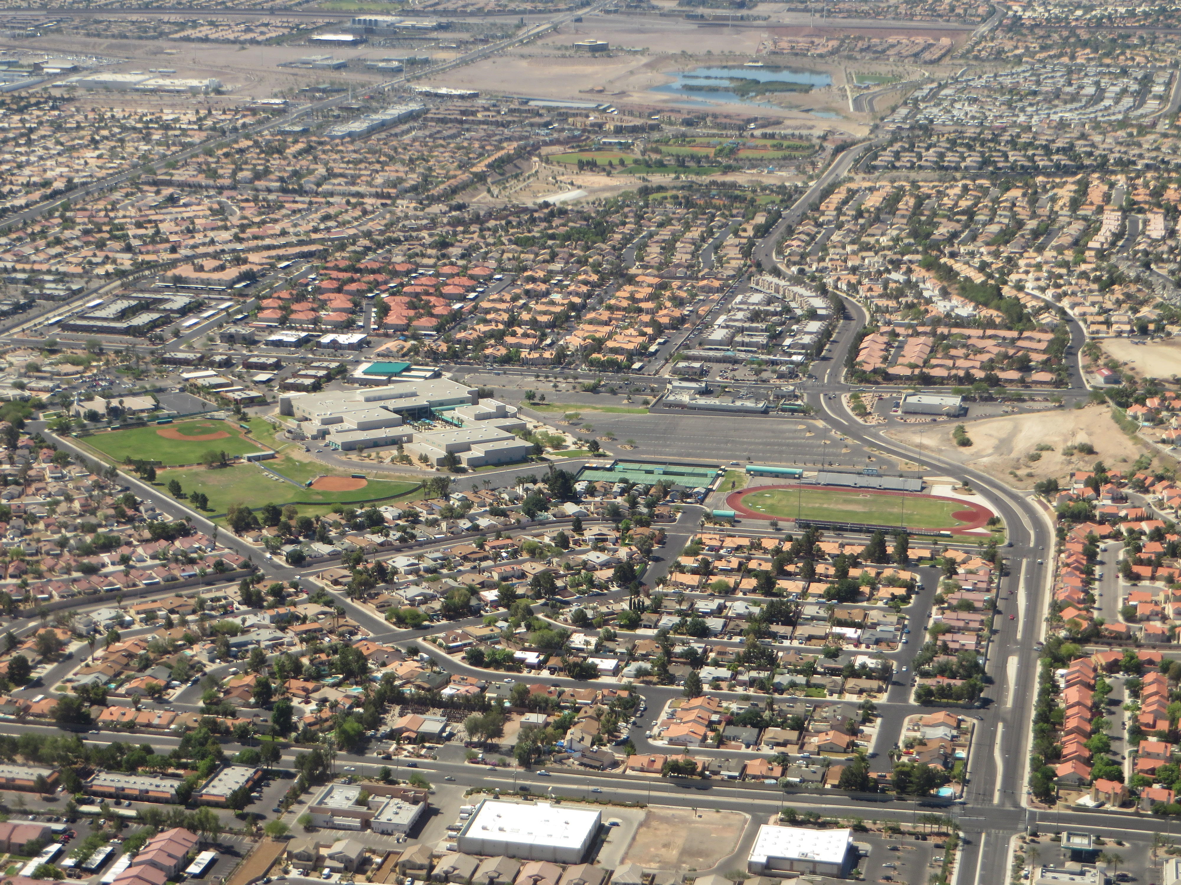 Henderson is a suburban city in Clark County, Nevada, United States, within the Las Vegas metropolitan area of the Mojave Desert. It is the second largest city in Nevada, after Las Vegas, with a population of 257,729 in the 2010 census. It occupies the southeast end of the Las Vegas Valley at an elevation of approximately 1,330 feet (410 m).